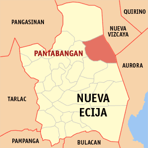 Map of Nueva Ecija showing the location of Pantabangan